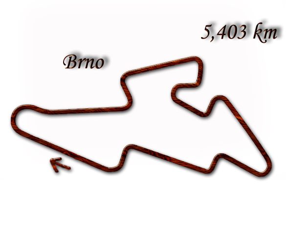 Circuit for A1 Grand Prix, DTM, F3, WTCC, moto GP /2006/ Autor: Jiří Žemlička